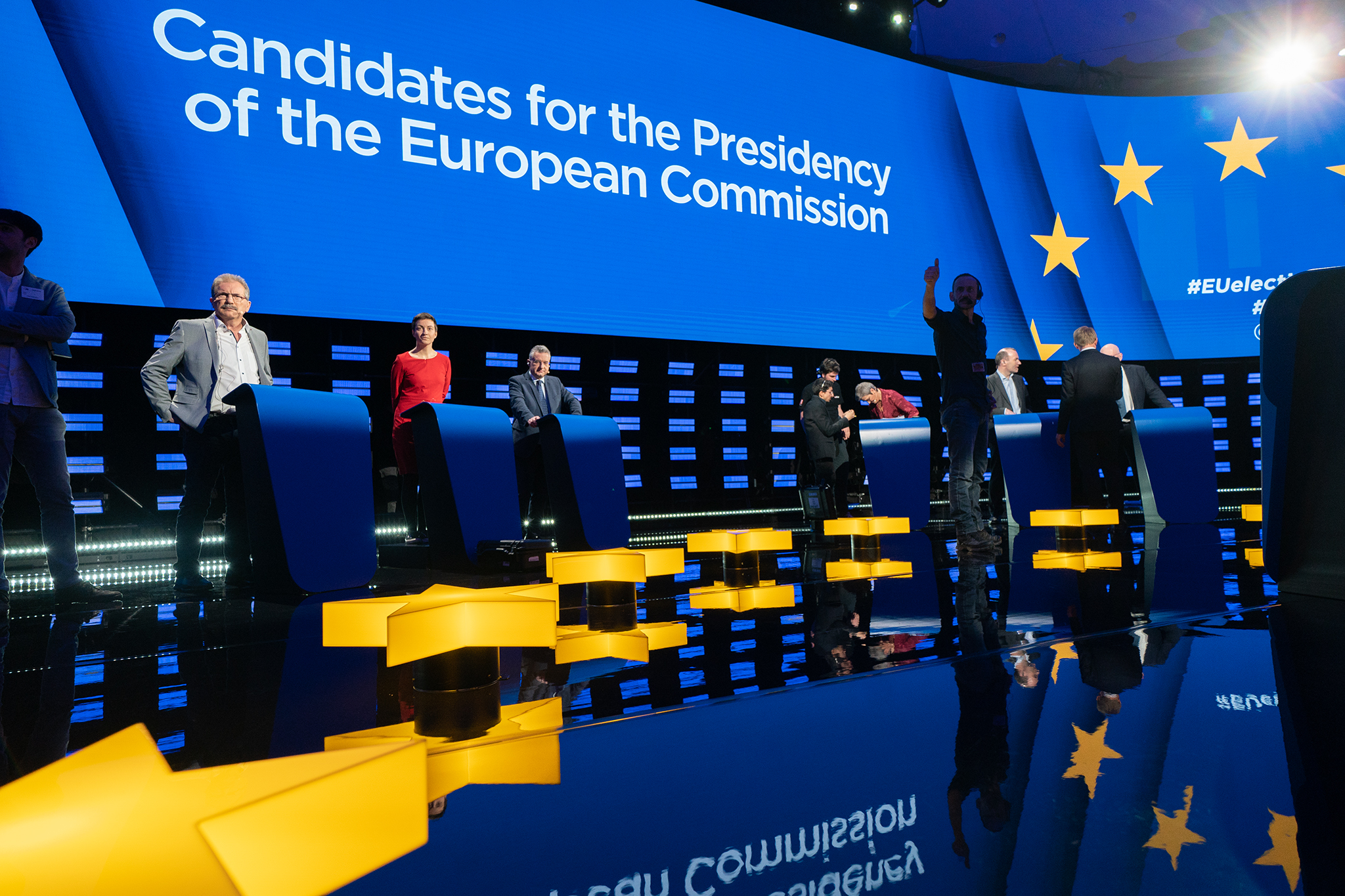 The live debate will be moderated by TV anchors Markus Preiss (ARD WDR), Emilie Tran-Nguyen (France Télévisions) and Annastiina Heikkilä (Yle) and broadcast by the EBU's public service media members and others throughout Europe. Speaking order for lead candidates is: Nico CUÉ, European Left (EL) Ska KELLER, European Green Party (EGP) Jan ZAHRADIL, Alliance of Conservatives and Reformists in Europe (ACRE) Margrethe VESTAGER, Alliance of Liberals and Democrats for Europe (ALDE) Manfred WEBER, European People’s Party (EPP) Frans TIMMERMANS, Party of European Socialists (PES) This photo is free to use under Creative Commons license CC-BY-4.0 and must be credited: "CC-BY-4.0: © European Union 2019 – Source: EP". No model release form if applicable. For bigger HR files please contact: webcom-flickr(AT)